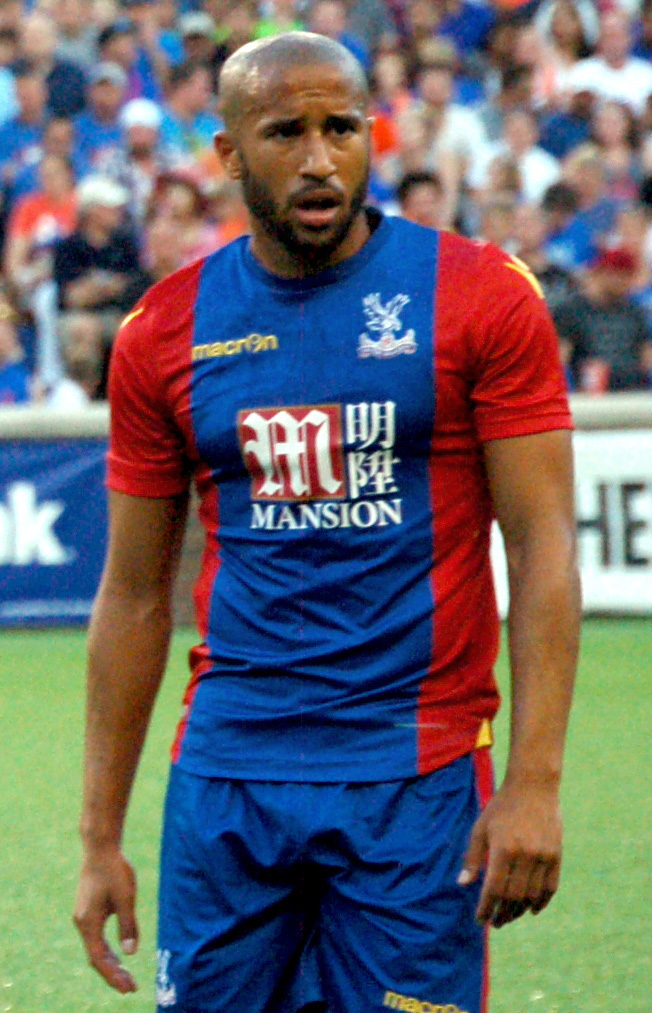 Andros Townsend playing for Crystal Palace against FC Cincinnati at Nippert Stadium, Cincinnati on 16 July 2016